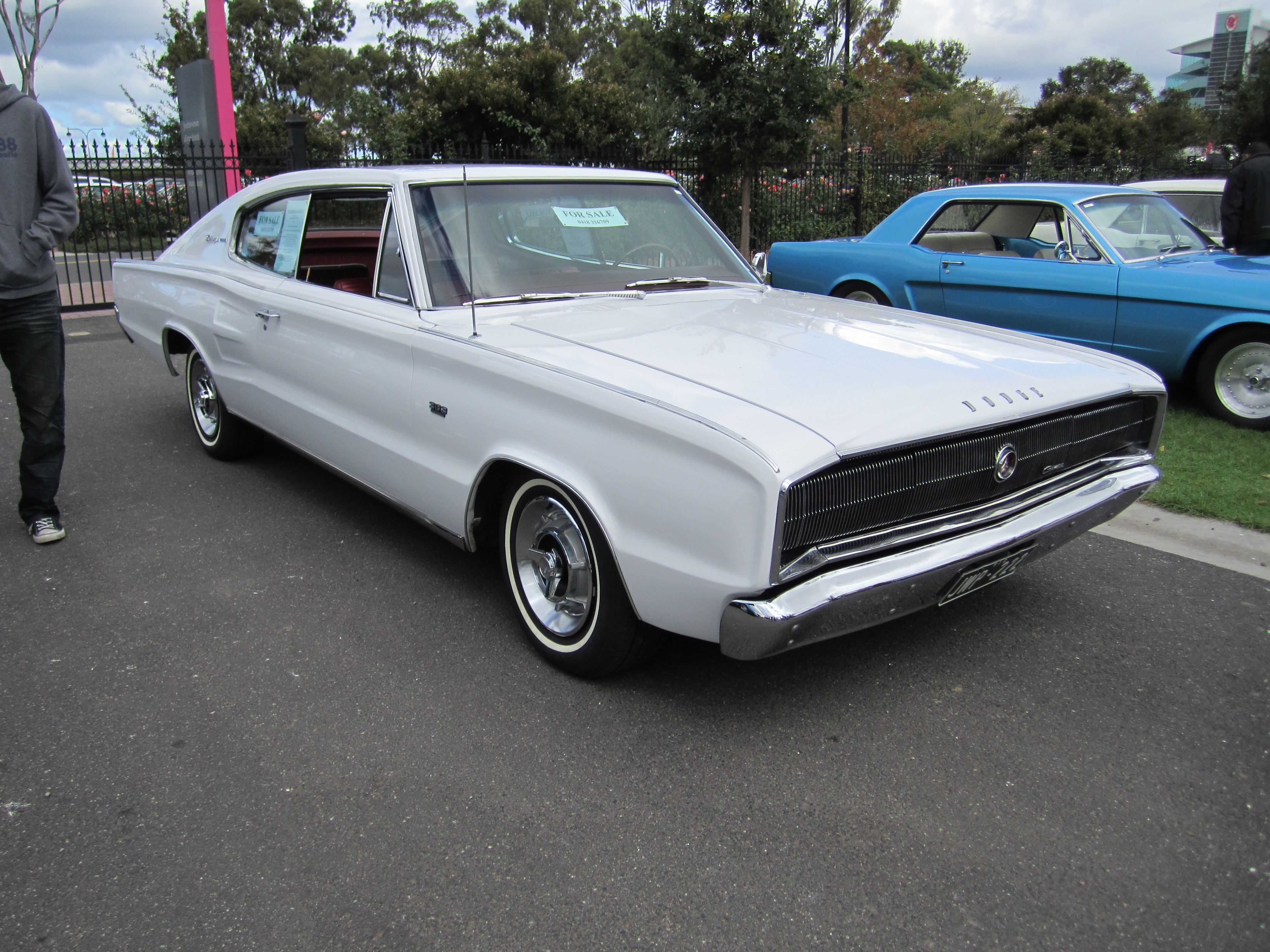 Based on the Dodge Coronet but with a fastback (B body ). Engines: 318, 361, 325bhp 383 and 425bhp 426 Hemi